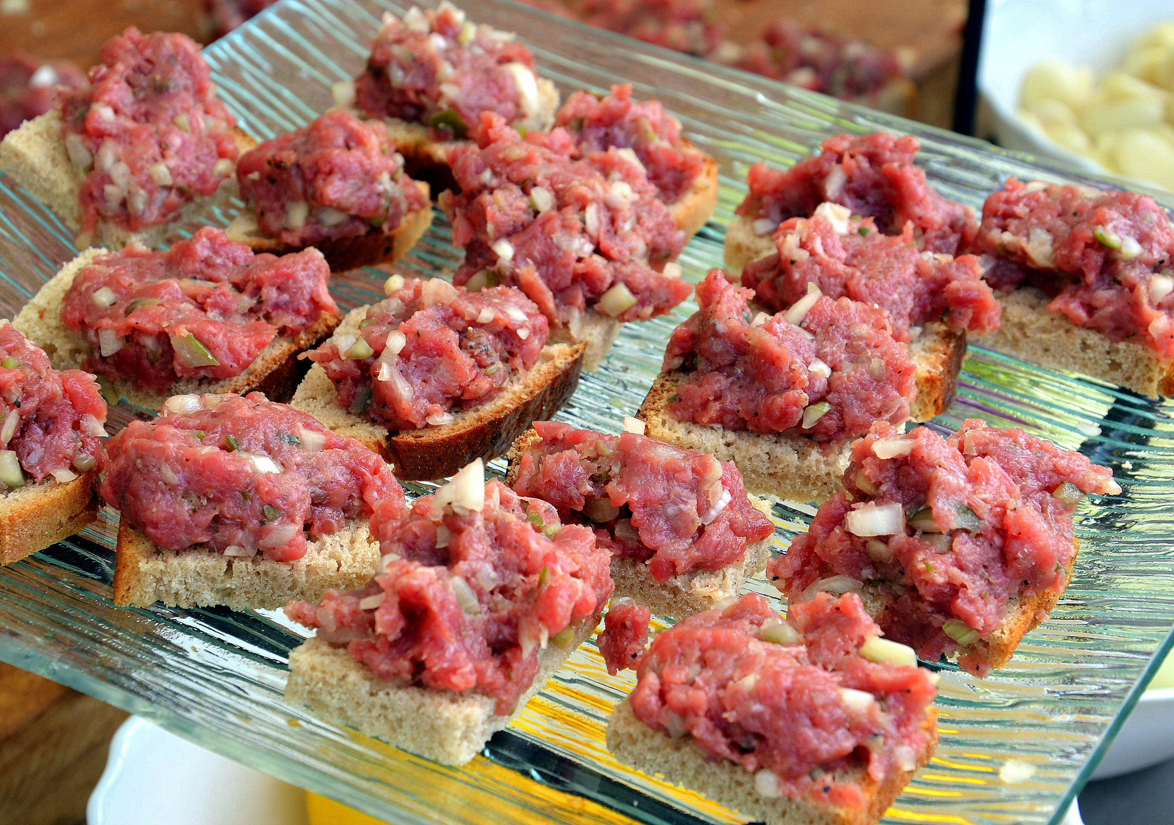 Rudawka Rymanowska